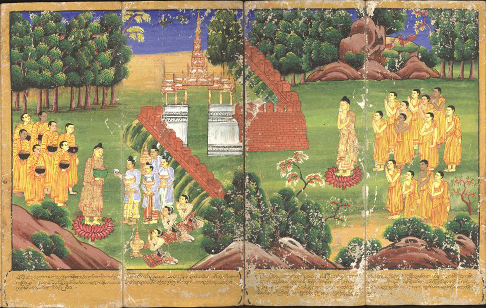 Pages 15-18 of a Burmese watercolour parabeik (picture book) illustrating scenes from the life of Gautama Buddha. The Buddha and his followers receive offerings. Shelfmark: MS. Burm. a. 12. Photoshop was used to combine two scans to make this image.